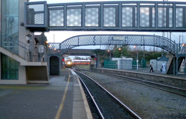 Portarlington Station Portarlington station looking in the direction of Cork. The train in the centre of the image, is arriving off the Branch from Galway. The mainline to Cork, swings to the left just under the road bridge.